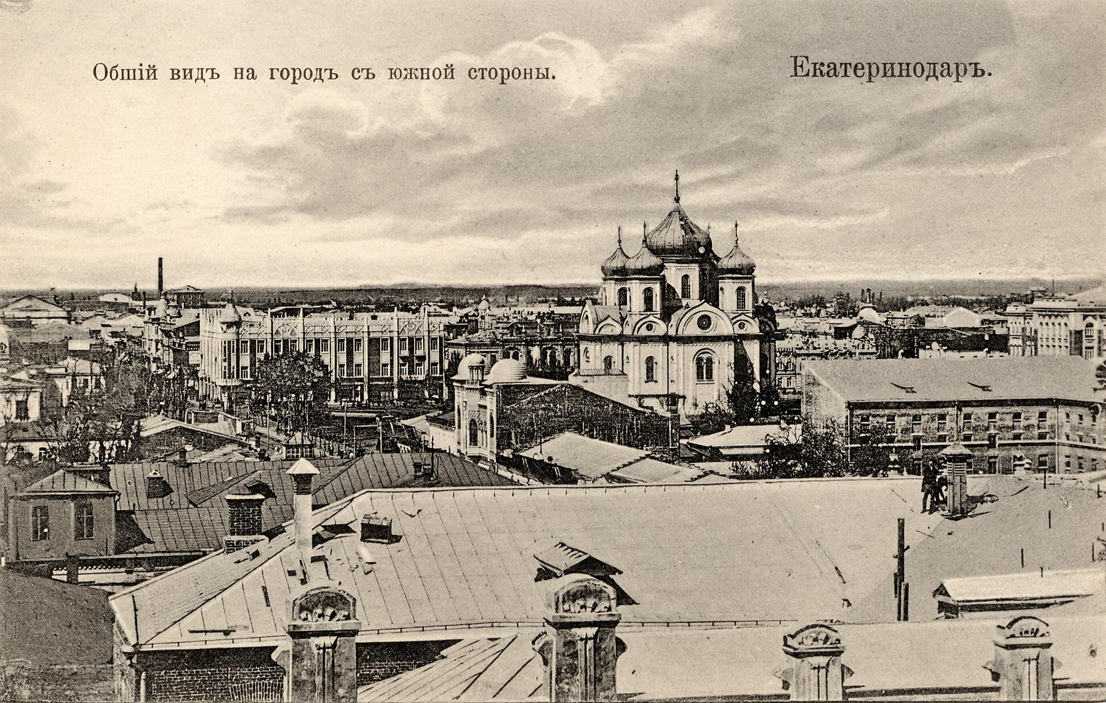 Yekaterinodar (today Krasnodar), Russia seen from the south in the early 1900s